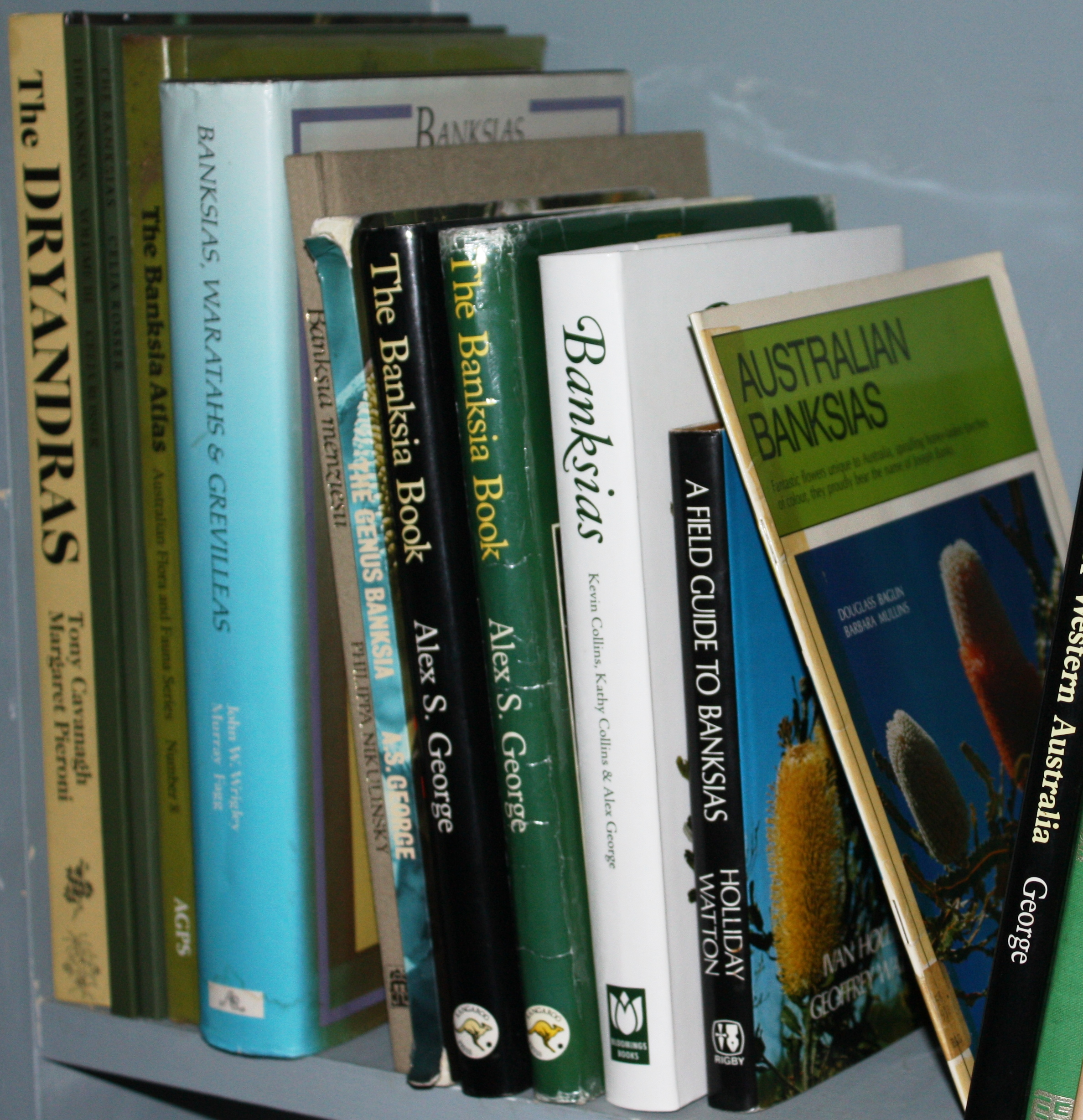 Some of the better known books on the plant genus Banksia.